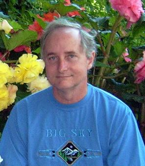 Photo of Puerto Rican inventor Jorge N. Amely Velez